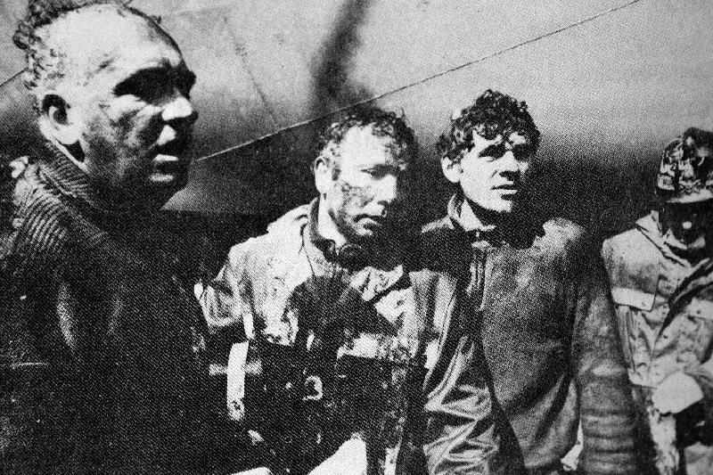 Fire-fighters and frogmen of the rescue team during the fire accident at the LPG tanker Elisabetta Montanari occurred in the the port of Ravenna on 13 March 1987